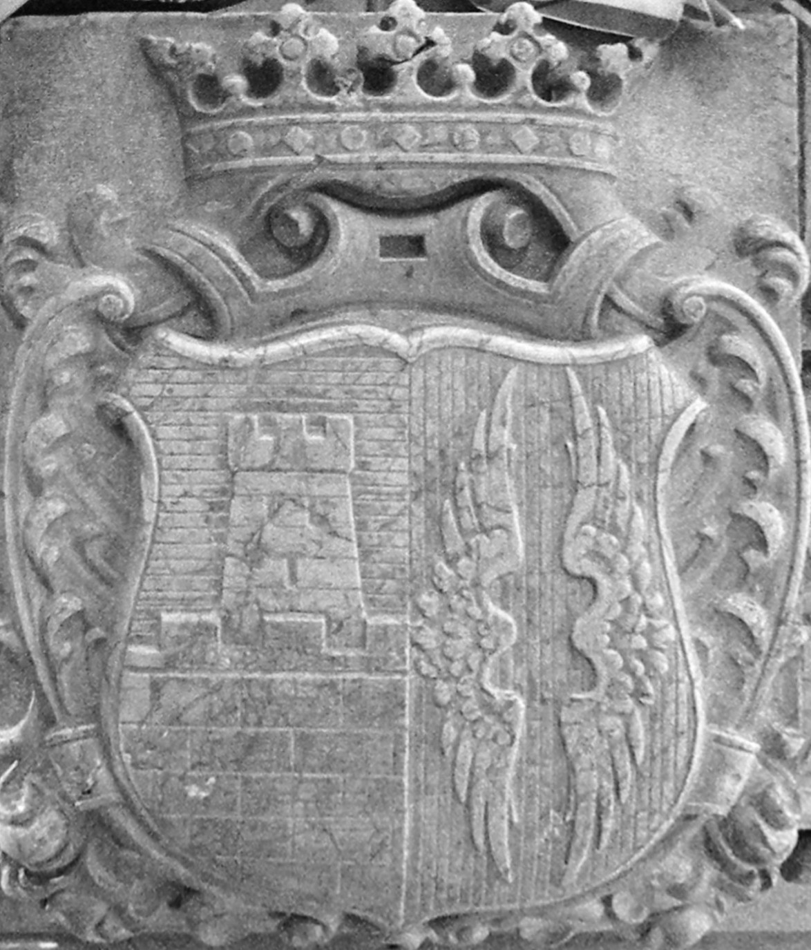 Coat of arms of Ilona Zrínyi (1643 - 1703). Sarcophagus of Ferenc II Rákóczi in the Cathedral of St Elizabeth, Košice, Slovakia.